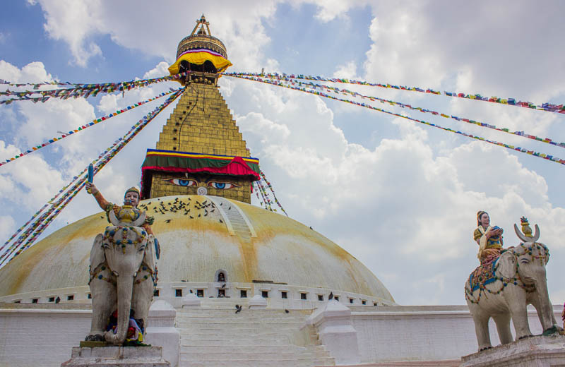 Boudhanath Stupa is a Buddhist Monastery located in Kathmandu, Nepal.